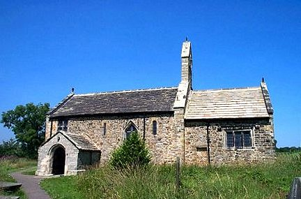 Stainburn, St Mary's Church ( another view)